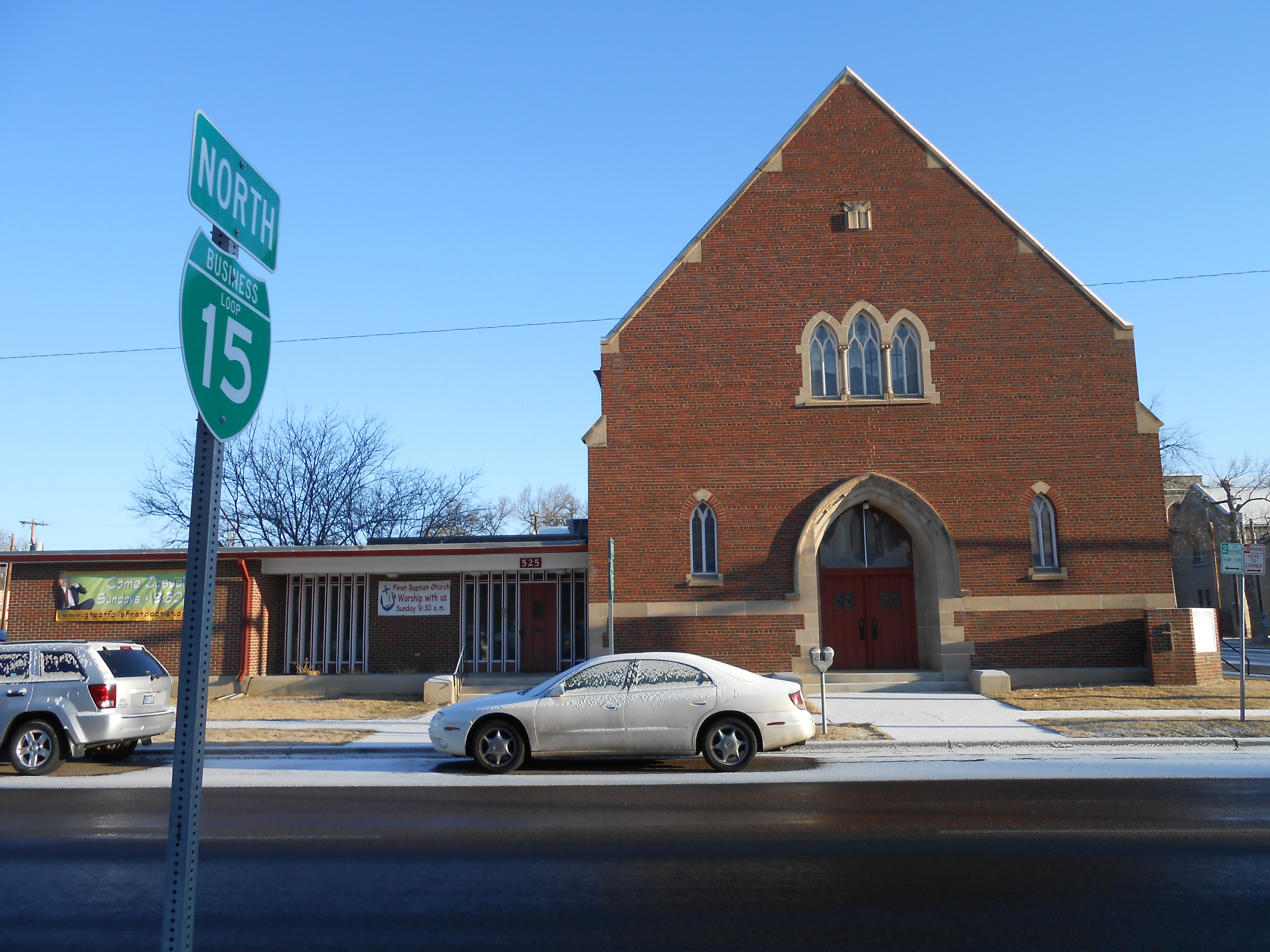 First Baptist Church, Great Falls, Montana 525 2nd Ave. North Part of NRHP Northside Residential District